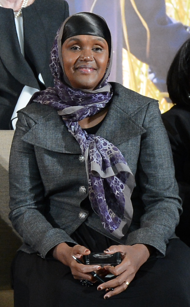 2013 International Women of Courage Awards Remarks John Kerry Secretary of State Dean Acheson Auditorium Washington, DC March 8, 2013